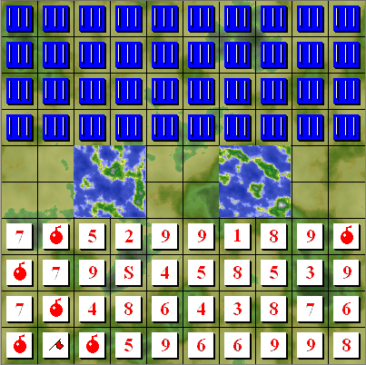 This is a screenshot of implementation of Stratego for Zillions of Games engine. The graphics was created by Andreas Kaufmann.